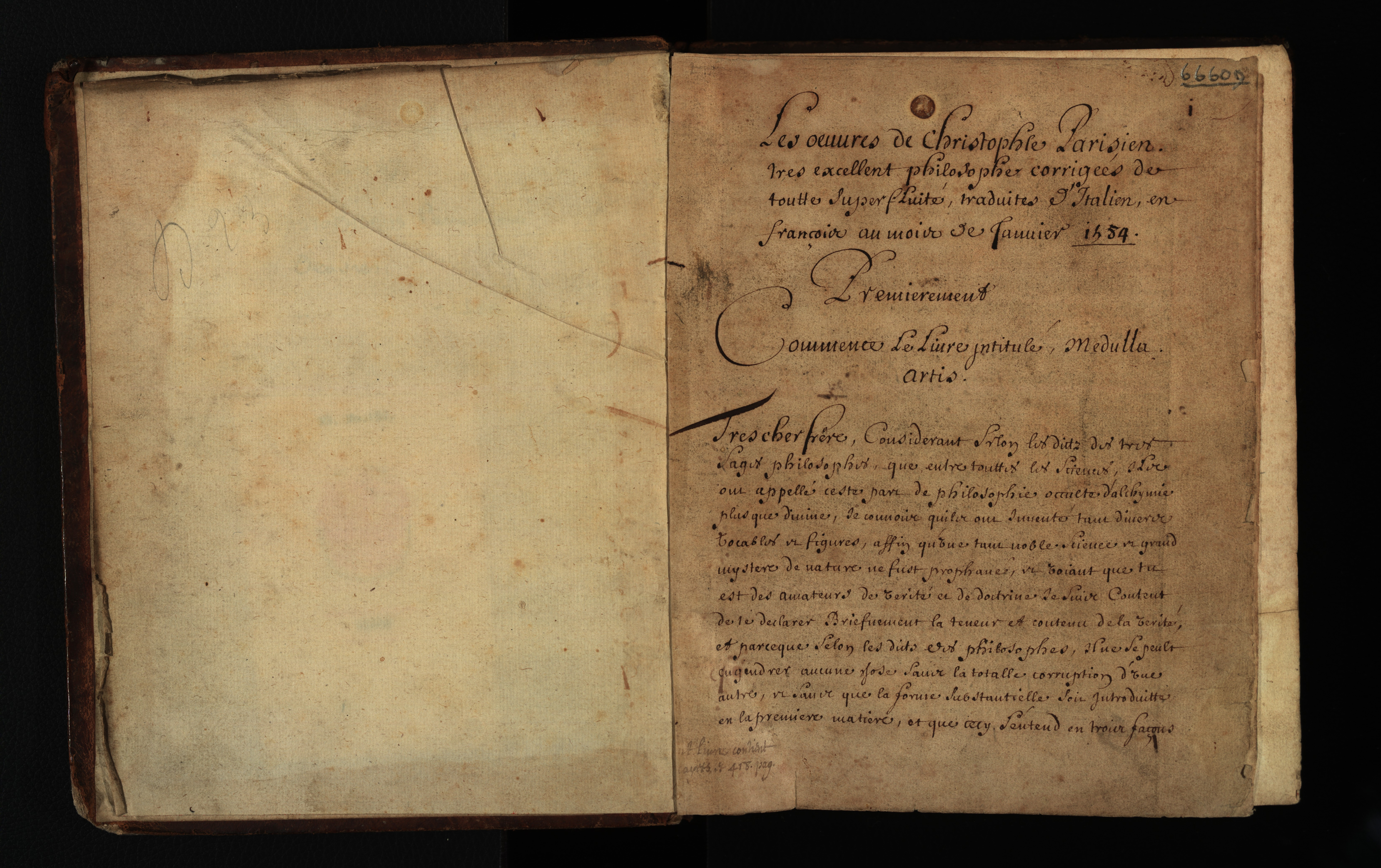 Archives & Manuscripts